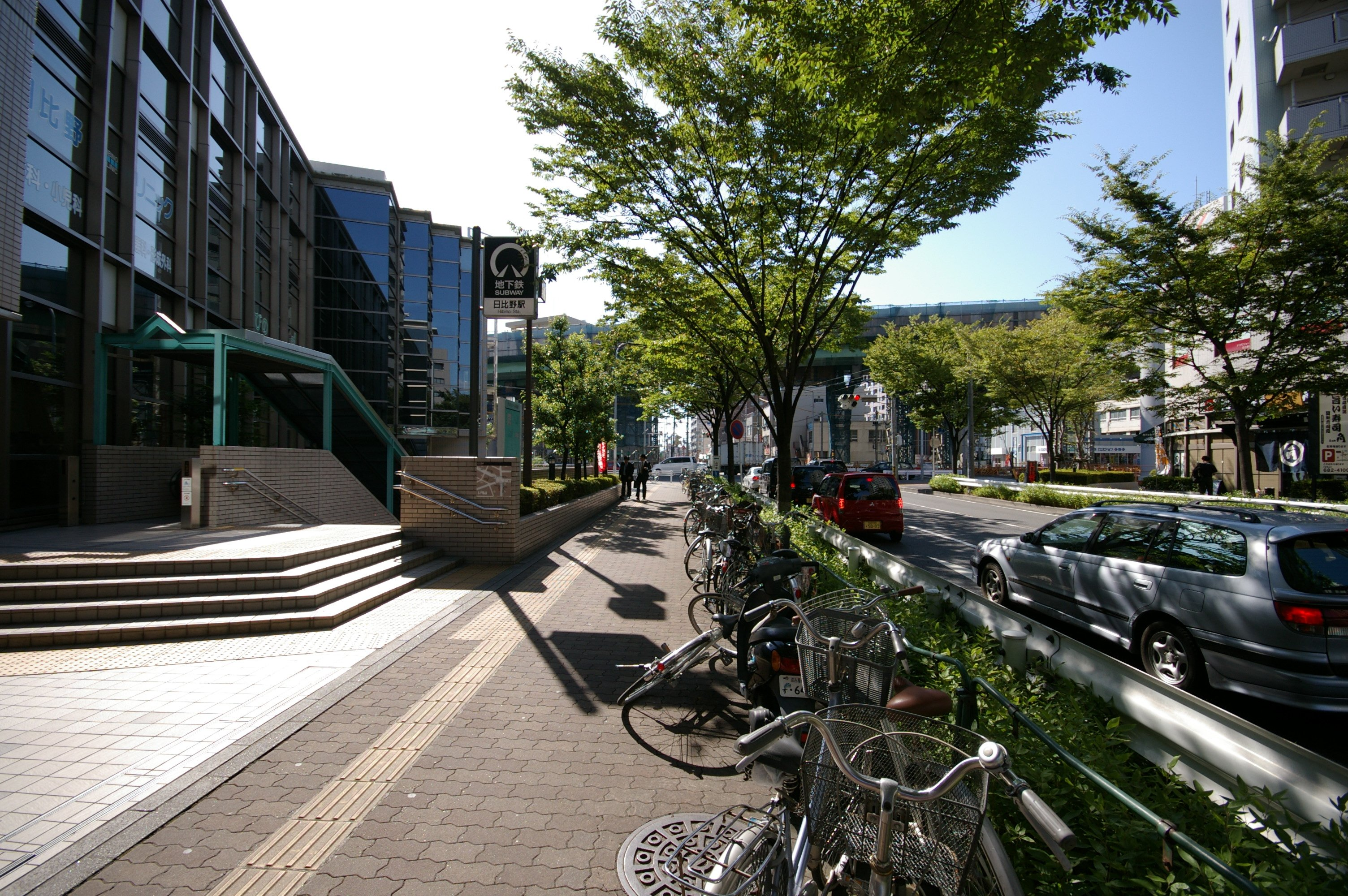 Nagoya Hibino Subway Station